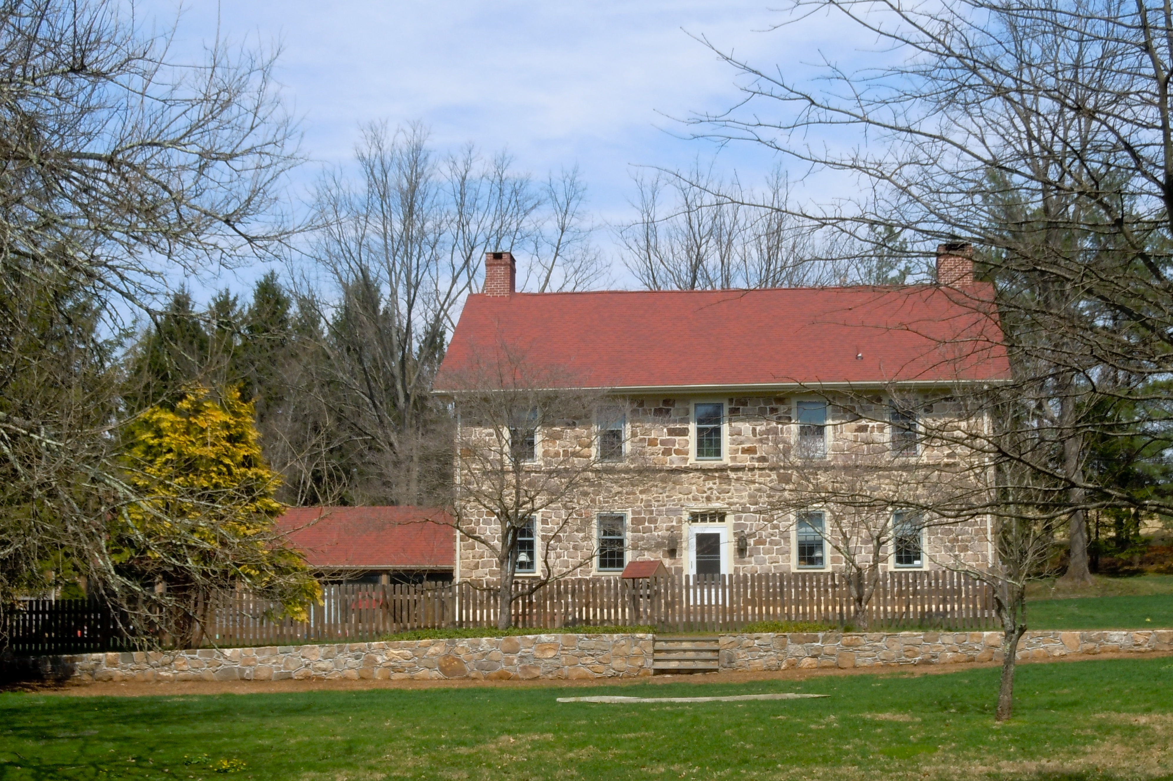 Vincent Forge Mansion on the NRHP since May 9, 1985 On Cook's Glen Road, just south of Pughtown Road, in East Vincent Township, Chester County, Pennsylvania.